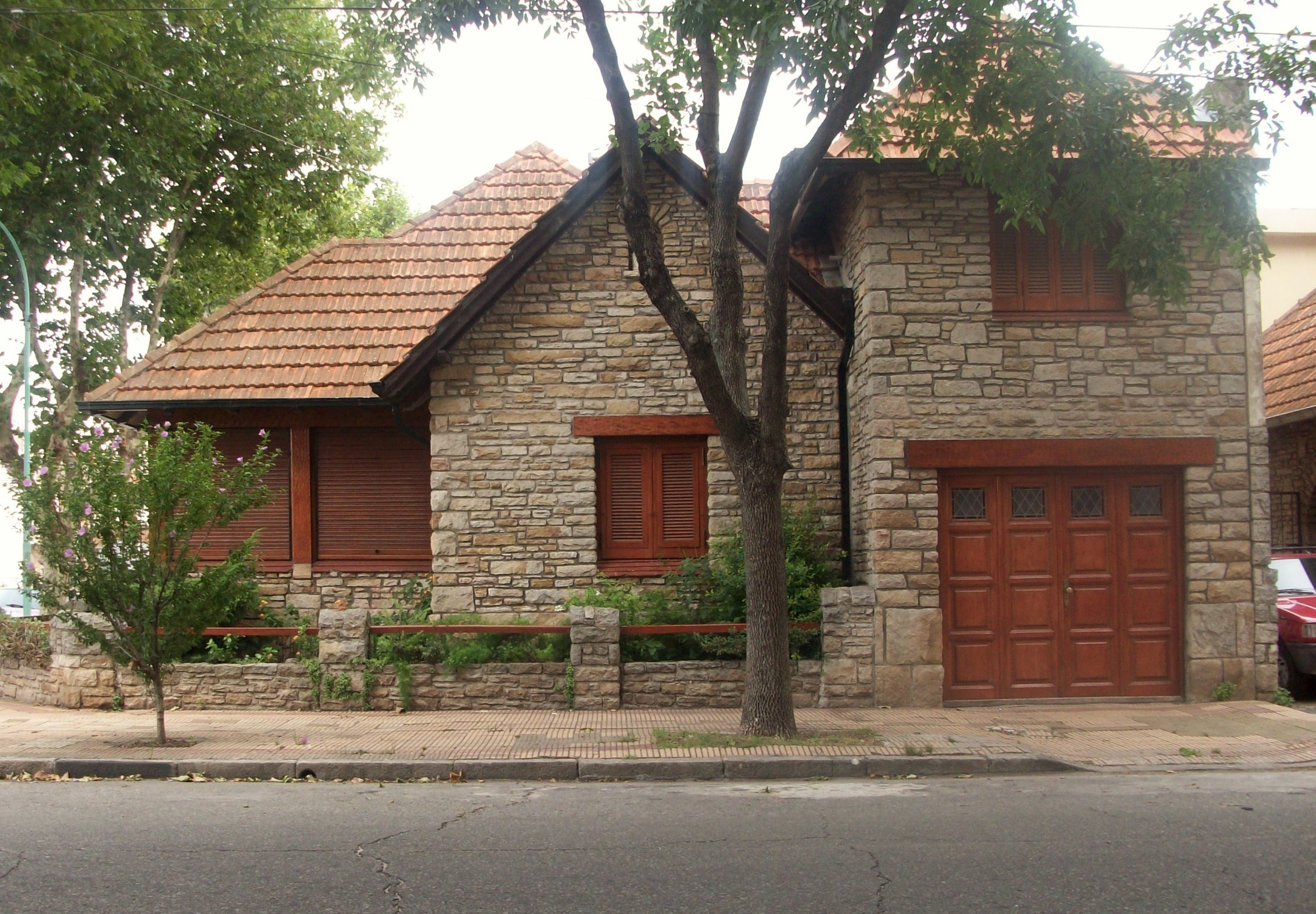 Early example of Mar del Plata style